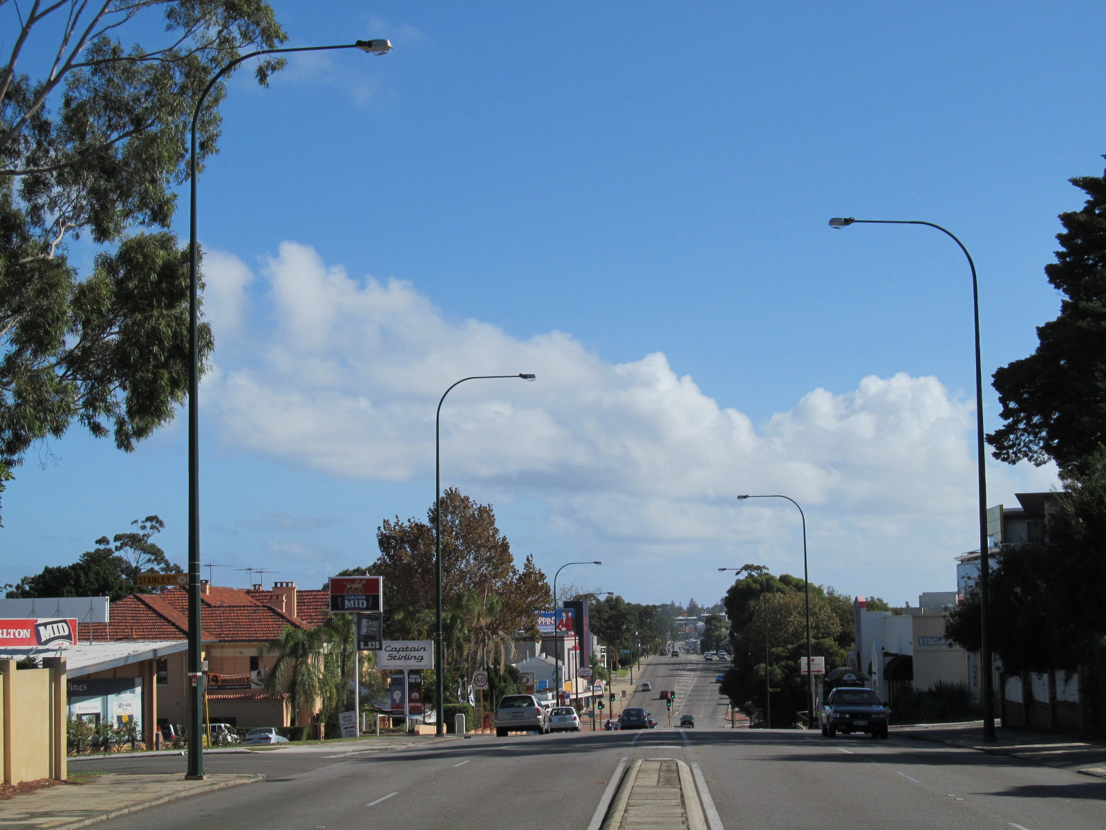 Stirling Highway, Nedlands, looking east from Webster Street near the council chambers.